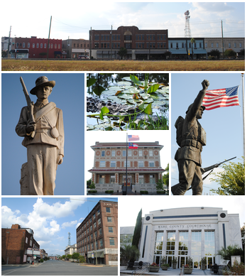 Photos I took around Waycross, Georgia